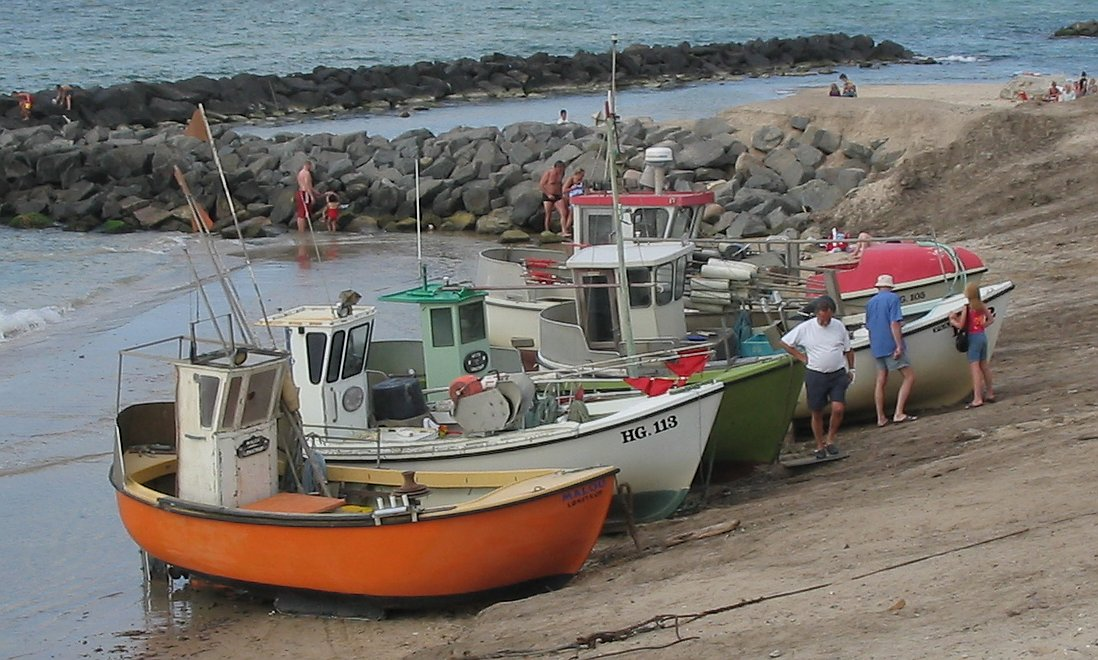 Fishing boats in Lønstrup, Denmark